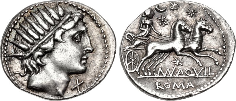 Man. Aquillius 109-108 BC. AR Denarius (20mm, 3.82 g, 6h). Rome mint. Radiate head of Sol right; X (mark of value) below chin / Luna driving galloping biga right, holding reins in both hands; crescent moon and three stars above, one star below; (MN) • AQVIL below; ROMA in exergue. Crawford 303/1; Sydenham 557; Kestner 2532-3; BMCRR Italy 645-6; Aquillia 1. Good VF, toned.